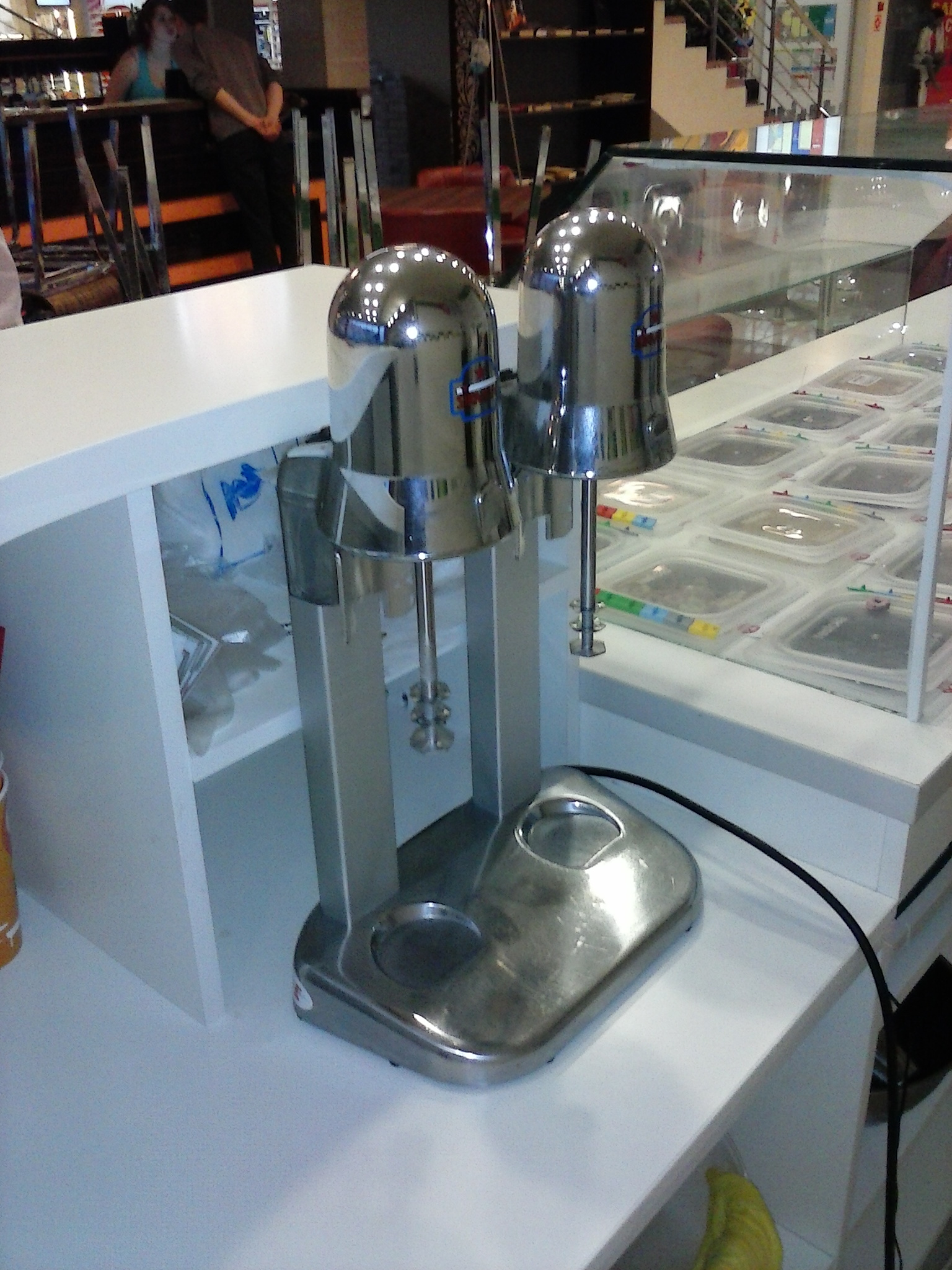 Drink mixer for milkshake. Model Sirman Sirio 2